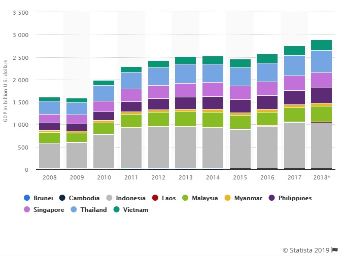 Gross domestic product (GDP) of the ASEAN countries from 2008 to 2018 (in billion U.S. dollars) Аҧсшәа: ASEAN államok USD-ben mért GDP változása 2008-2018 között